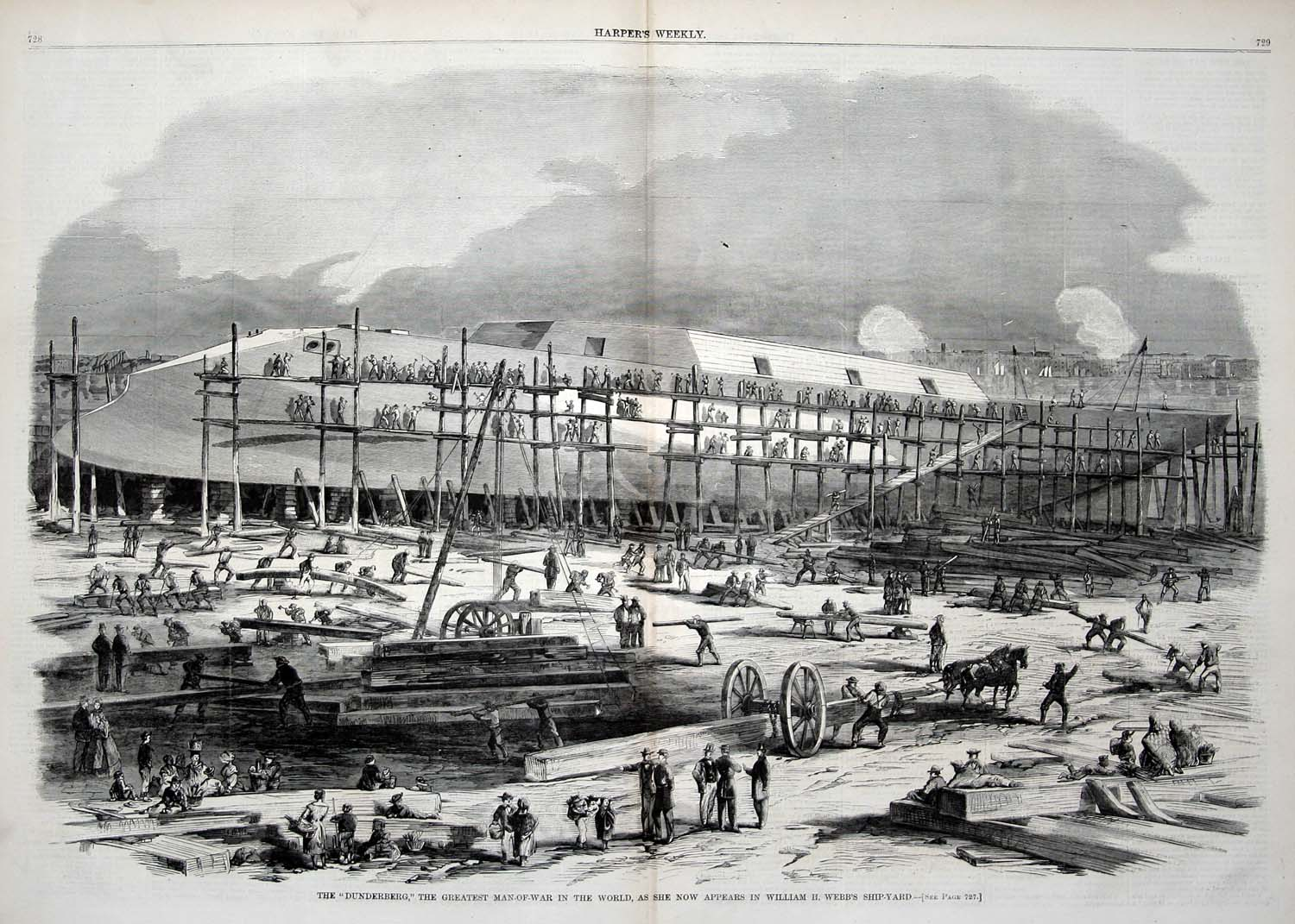 Illustration of the USS Dunderberg under construction at William H. Webb's shipyard in New York.